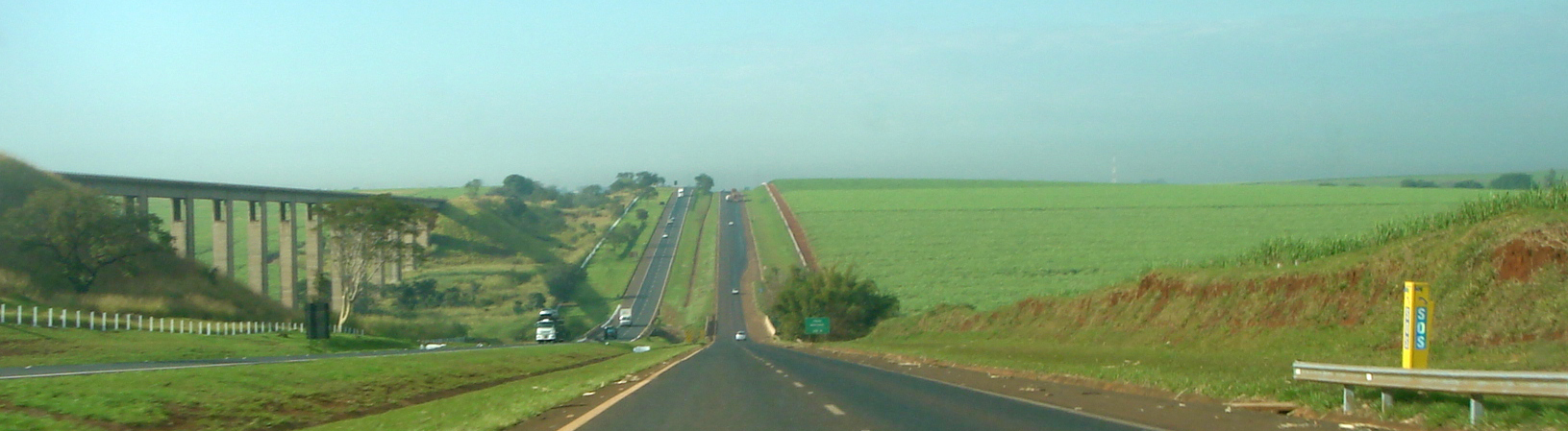 Panoramic view of sugar cane fields in the interior of São Paulo state, Brazil